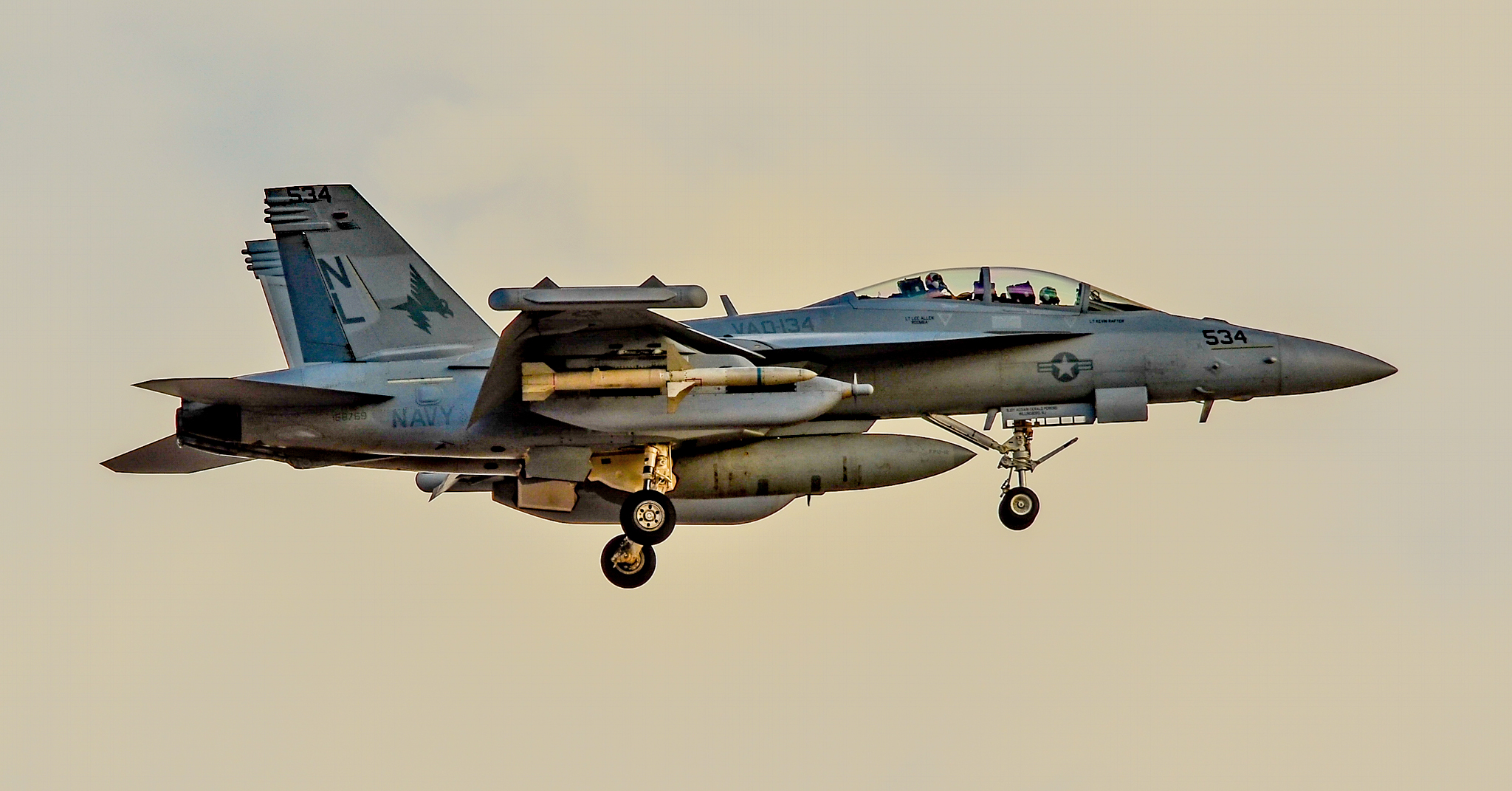 Electronic Attack Squadron 134 (VAQ-134), also known as the "Garudas" based at Naval Air Station Whidbey Island. Red Flag 17-1: Jan. 23 to Feb. 10, 2017 Las Vegas - Nellis AFB (LSV / KLSV) USA - Nevada, February 7, 2017 Photo: TDelCoro